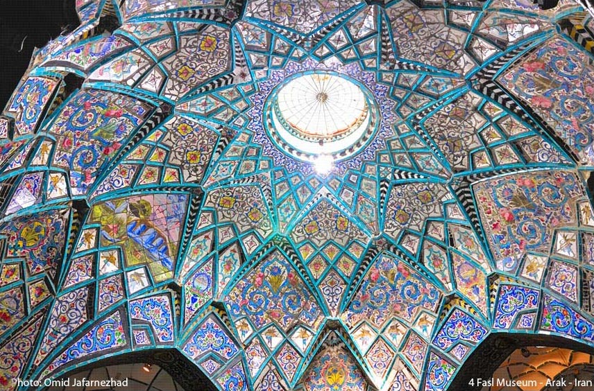 4 Fasl Bathroom is a museum in Arak.